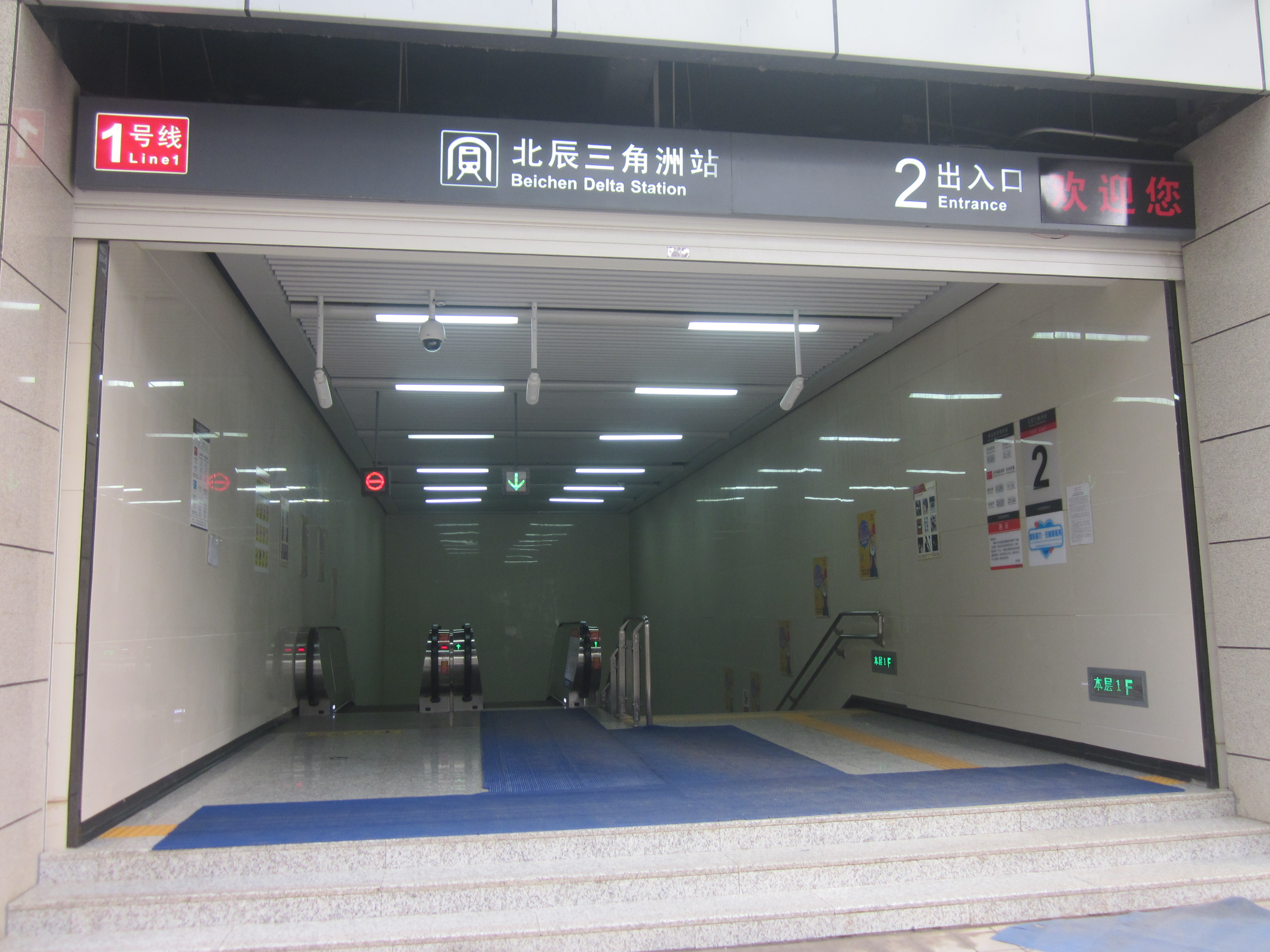 Entrance No. 2 of Beichen Delta Station, Line 1, Changsha Metro.